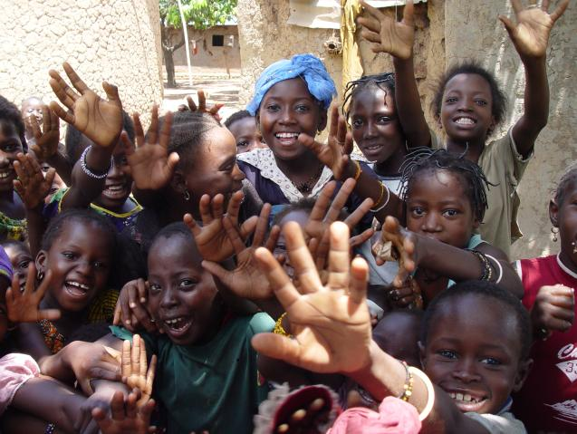 Siguiri, Guinea